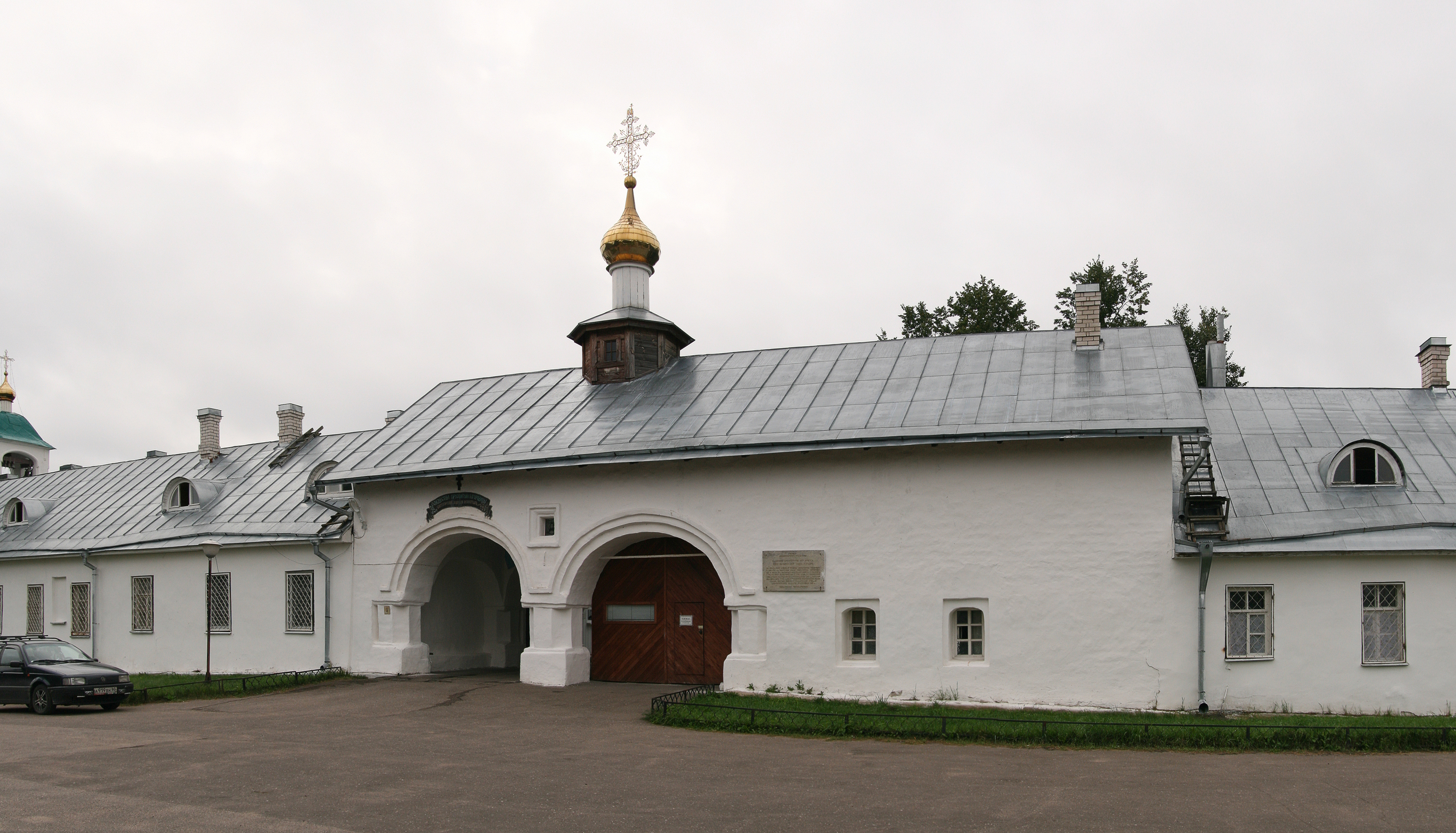 Holy Gate of Snetogorsky Monastery, Pskov